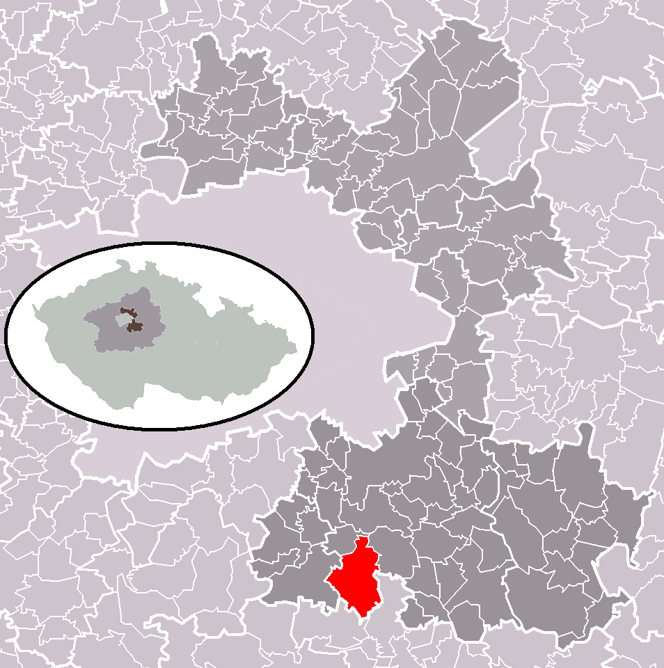 Location of Velké Popovice municipality within Prague-East District and administrative area of Říčany as a Municipality with Extended Competence.